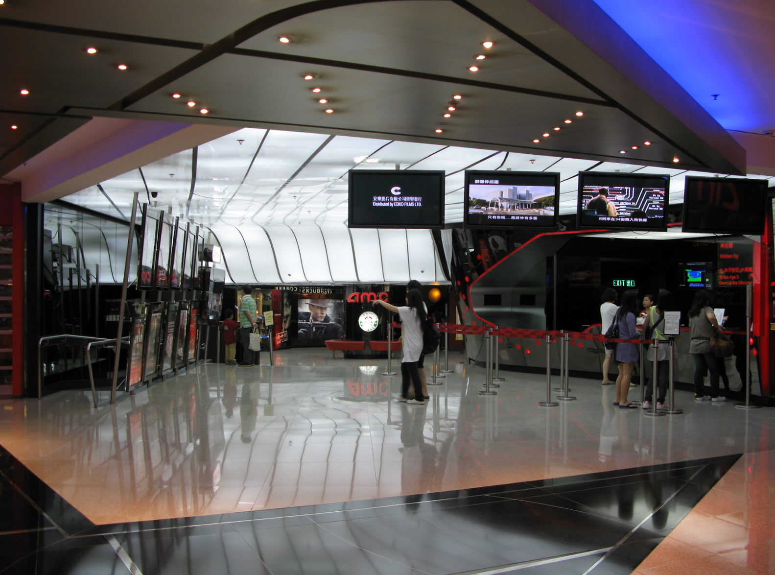 HK Festival Walk amc cinema